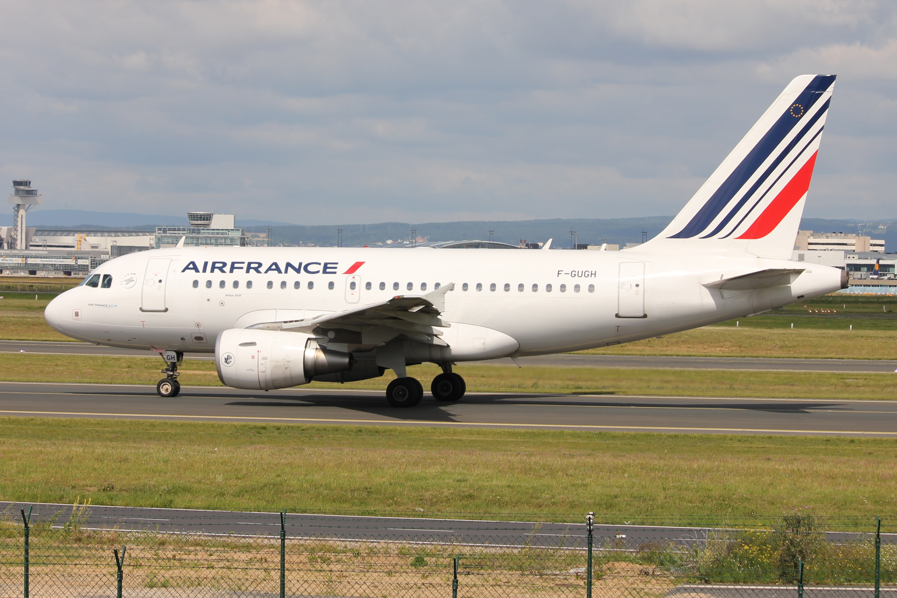 Airfrance A318 taxies at Frankfurt intl. Airport.